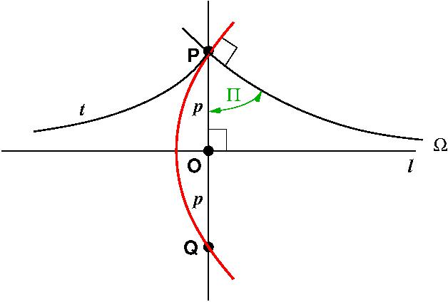 Corde and tangent to horocircle arc